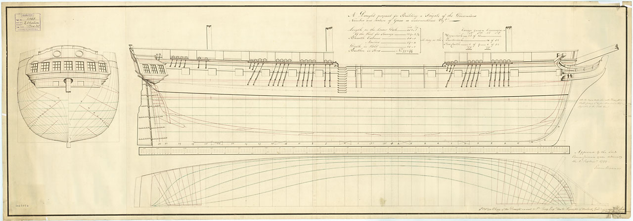 Ethalion (1802) Scale: 1:48. Plan showing the body plan with stern board outline, sheer lines, and longitudinal half-breadth proposed (and approved) for Ethalion (1802), a 36-gun Fifth Rate, Frigate. A copy of this was sent to Woolwich Dockyard on 9 October 1799. ETHALION 1802